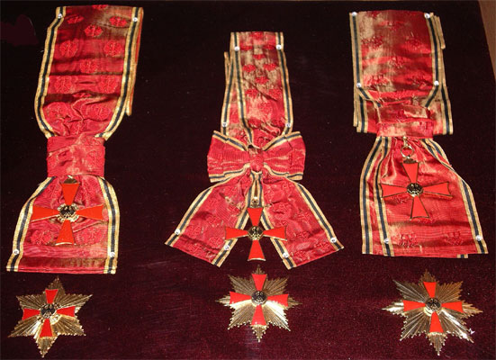 Orders of Merit of Germany